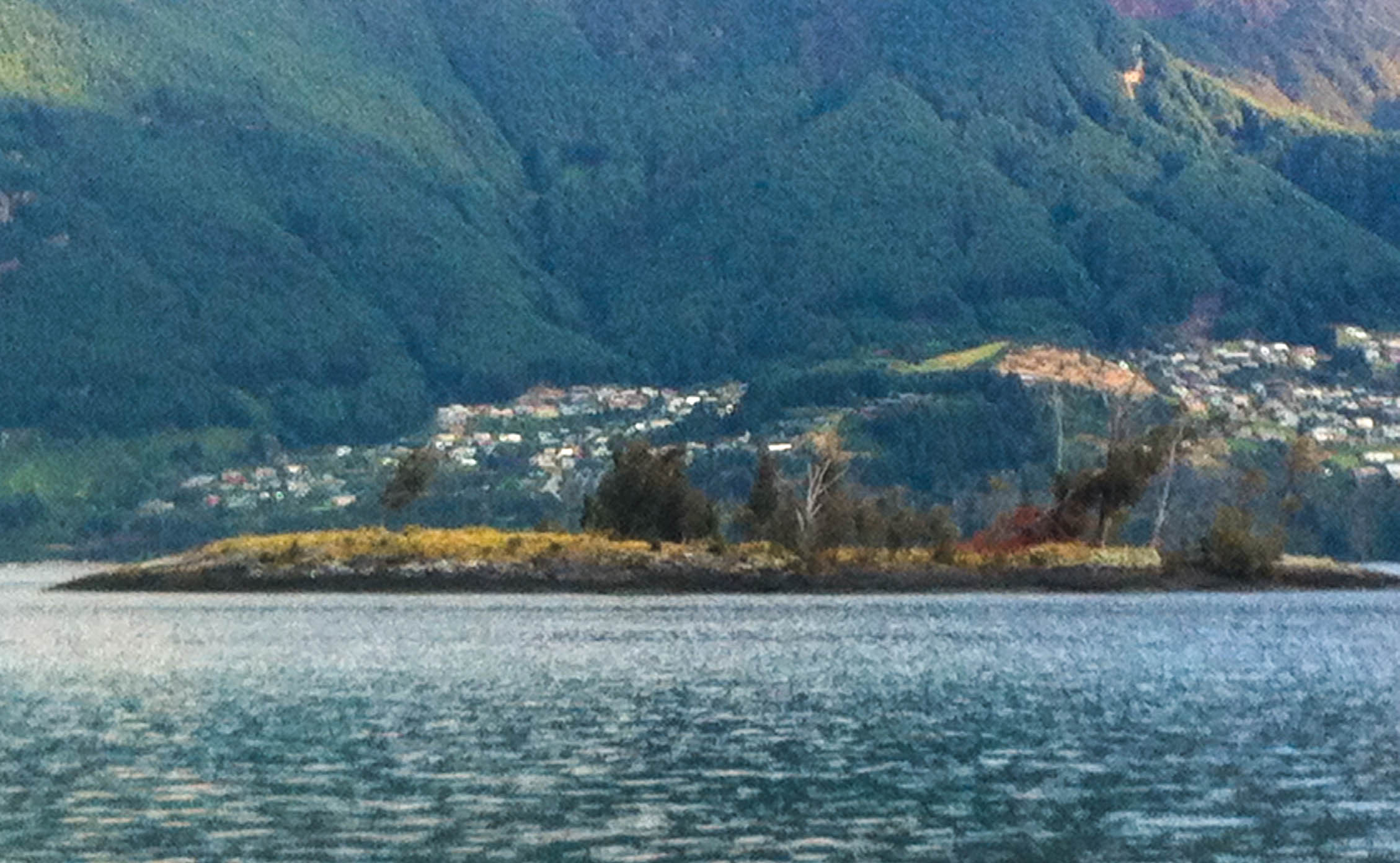 Hidden Island as viewed from Cecil Peak beach with Sunshine Bay and Fernhill in the background